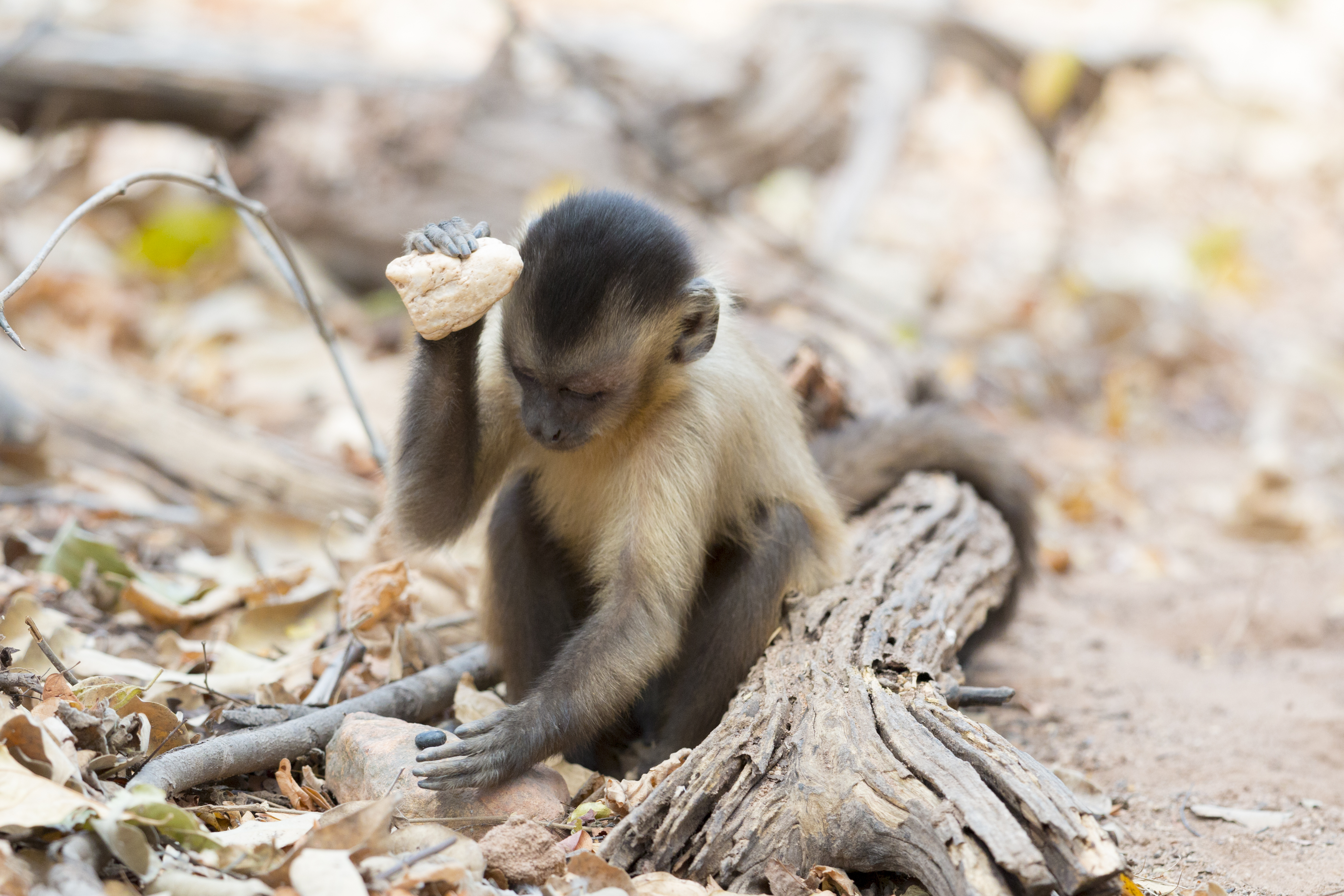 A juvenile capuchin monkey (Sapajus libidinosus) using a stone as tool to open a seed. The capuchin population from Serra da Capivara has the most complex tool set known for neotropical primates.